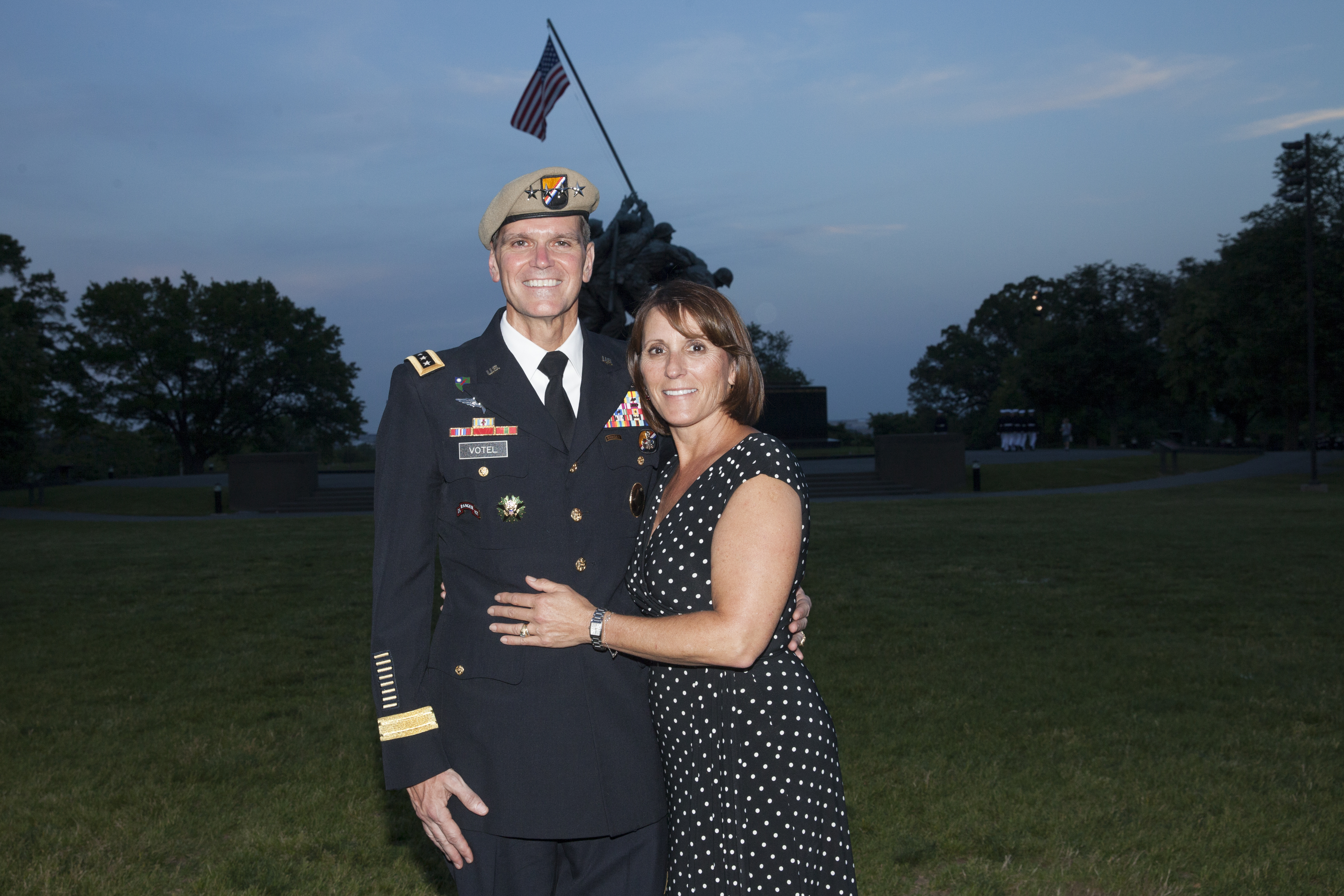 U.S. Army Gen. Joseph L. Votel, commander, U.S. Special Forces Command, poses for a photo with his wife during the conclusion of the sunset parade at the Marine Corps War Memorial, Arlington, Va., May 26, 2015. Since September 1956, marching and musical units from Marine Barracks Washington, D.C., have been paying tribute to those who's "uncommon valor was a common virtue" by presenting sunset parades in the shadow of the 32-foot high figures of the United States Marine Corps War Memorial. (U.S. Marine Corps photo by Lance Cpl. Alejandro Sierras/Released)